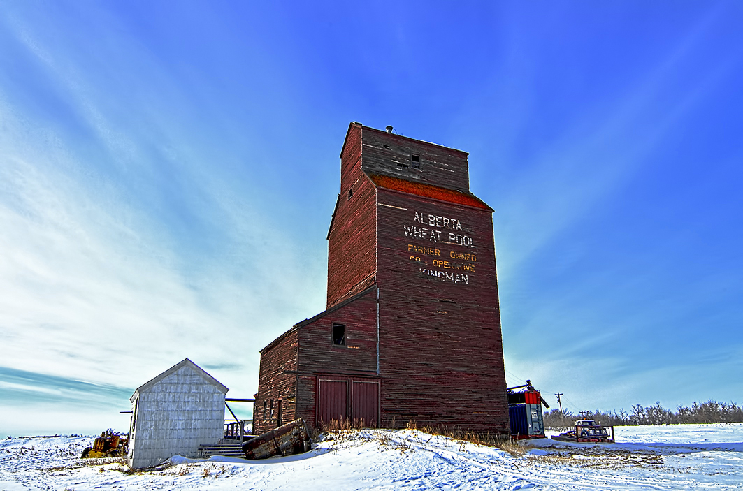 I took this one with Alison's D7000 with her Tokina 11-16mm attached. Thanks for the use of it buddy! This grain elevator was moved a few years back from its original site to where it is today, just a few short clicks from Kingman, Alberta.